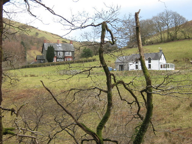 Llwydiarth Hall The Hall is the house on the left.